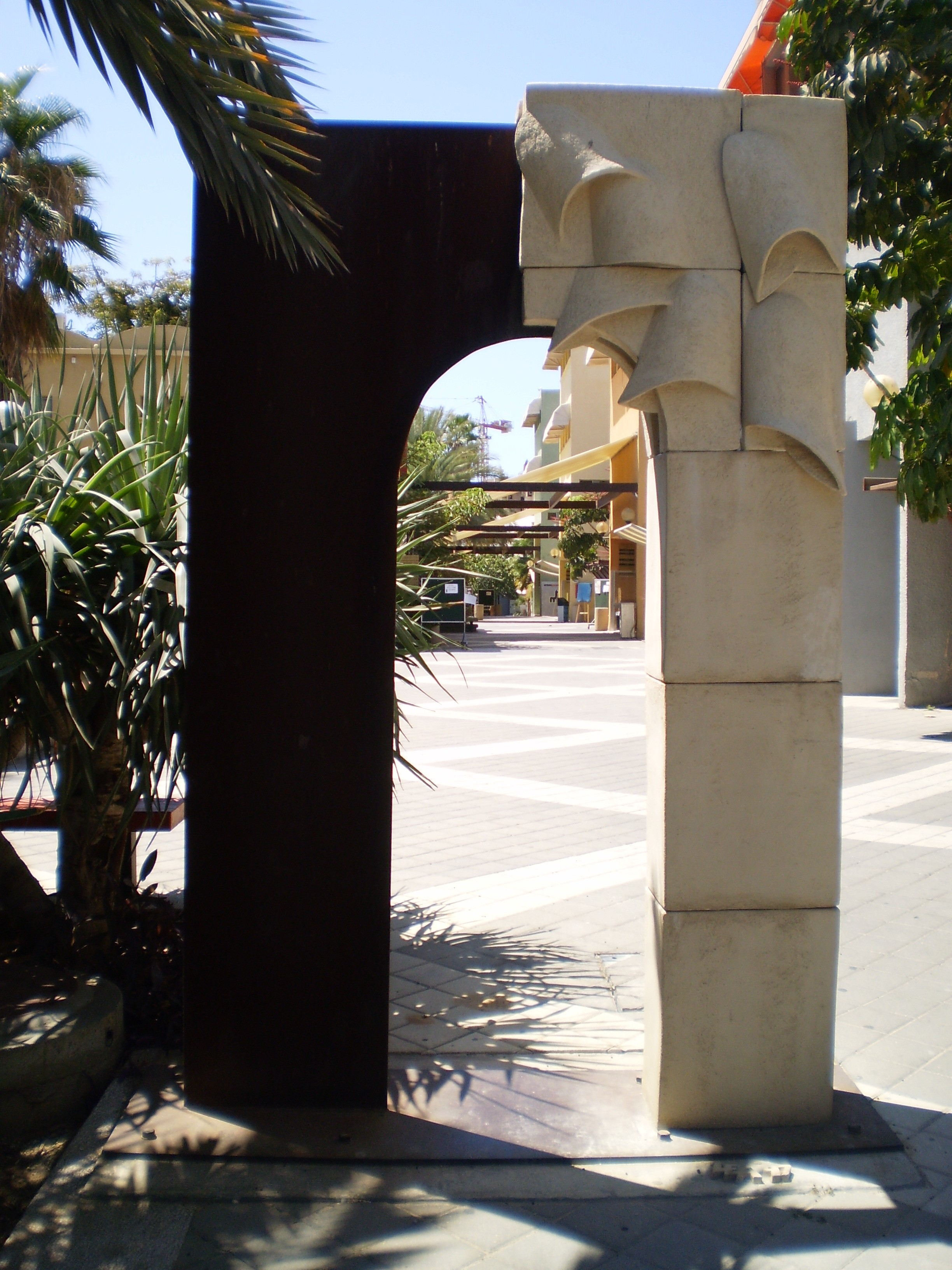 Kibbutzim College, Tel Aviv